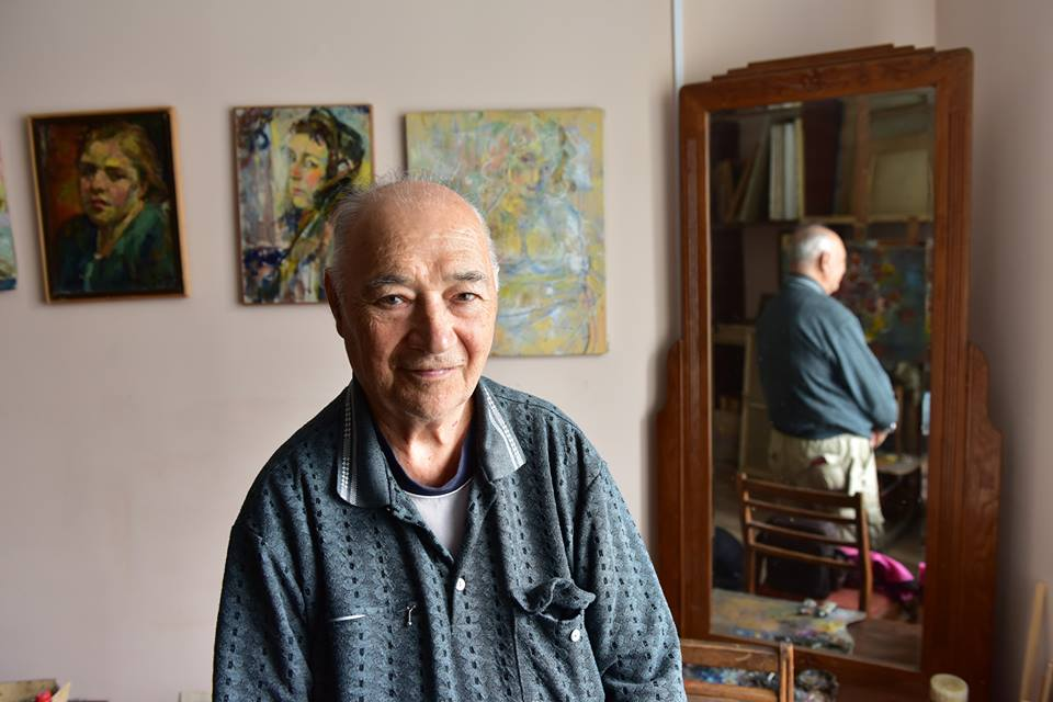 Artist, painter, worked for a while and worked in the city of Khmelnytsky, Ukraine. Member of the National Union of Artists of Ukraine.